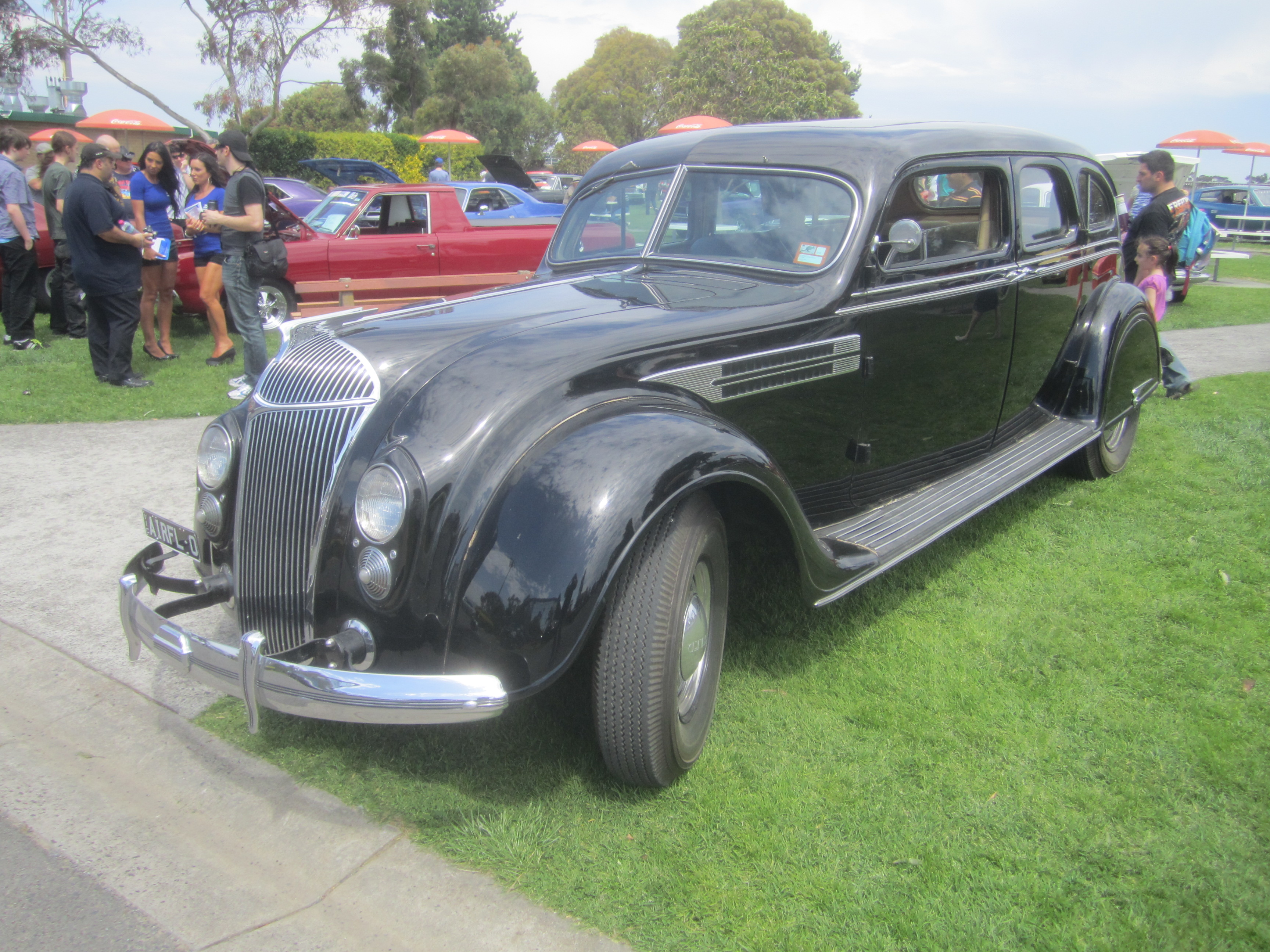 The 1934 to 1936 Chrysler Imperial, the 3rd generation, ushered in the 'Airflow' design. The car was marketed with the slogan; The car of tomorrow is here today. Both engine and passenger compartment were moved forward, giving better balance, ride and roadability. An early form of unibody construction was employed, making them extremely strong. This was one of the first vehicles with fender skirts. The public was put off by the unconventional styling and did not buy the car in large numbers, the lower priced Royal sold a lot better. 1937 saw a more conventional look again. Engines; 323 or 385 cu in straight 8